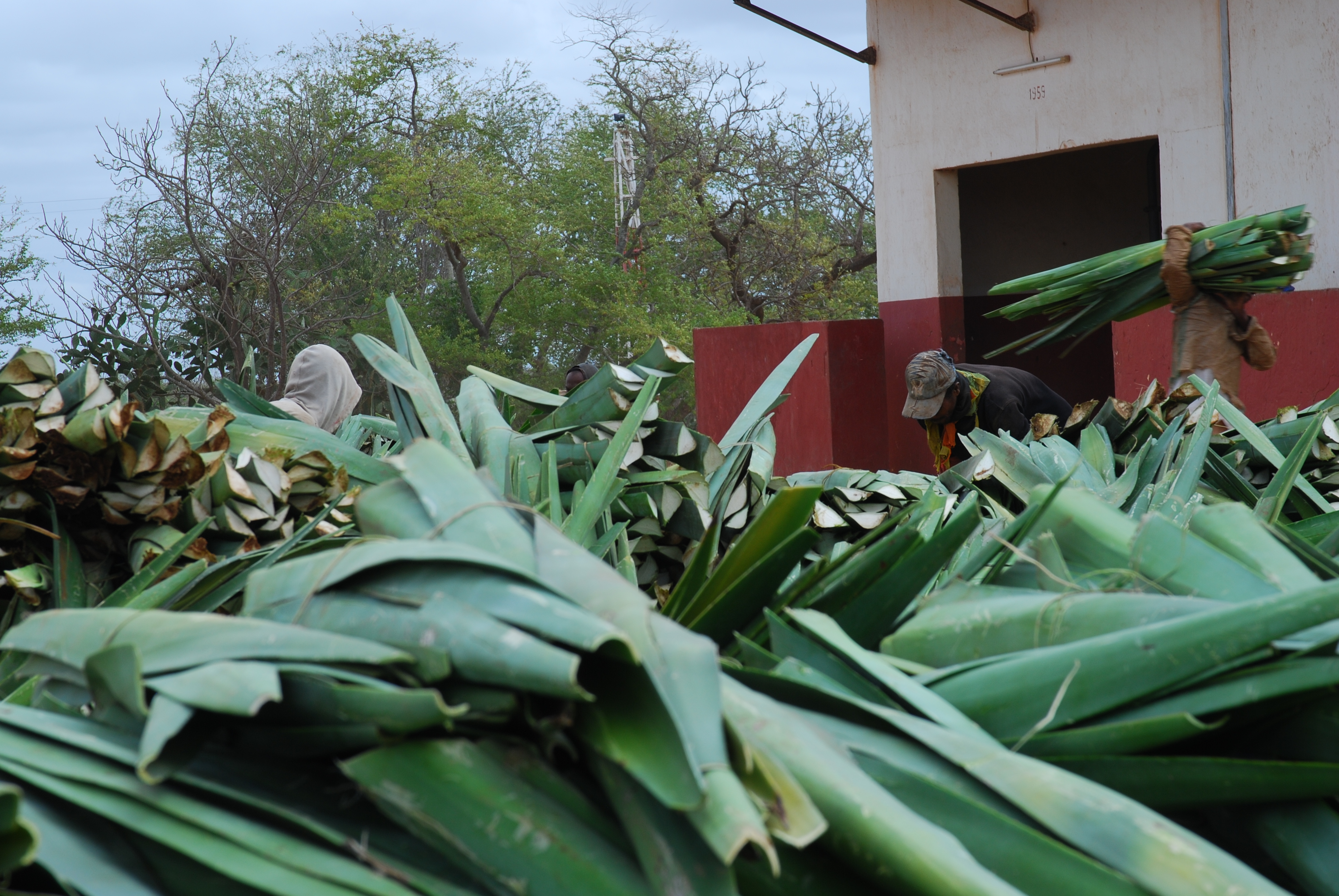 Sisal-leaves, ready for decortication in Madagascar. Photo by Jonathan Talbot, World Resources Institute, 2007.